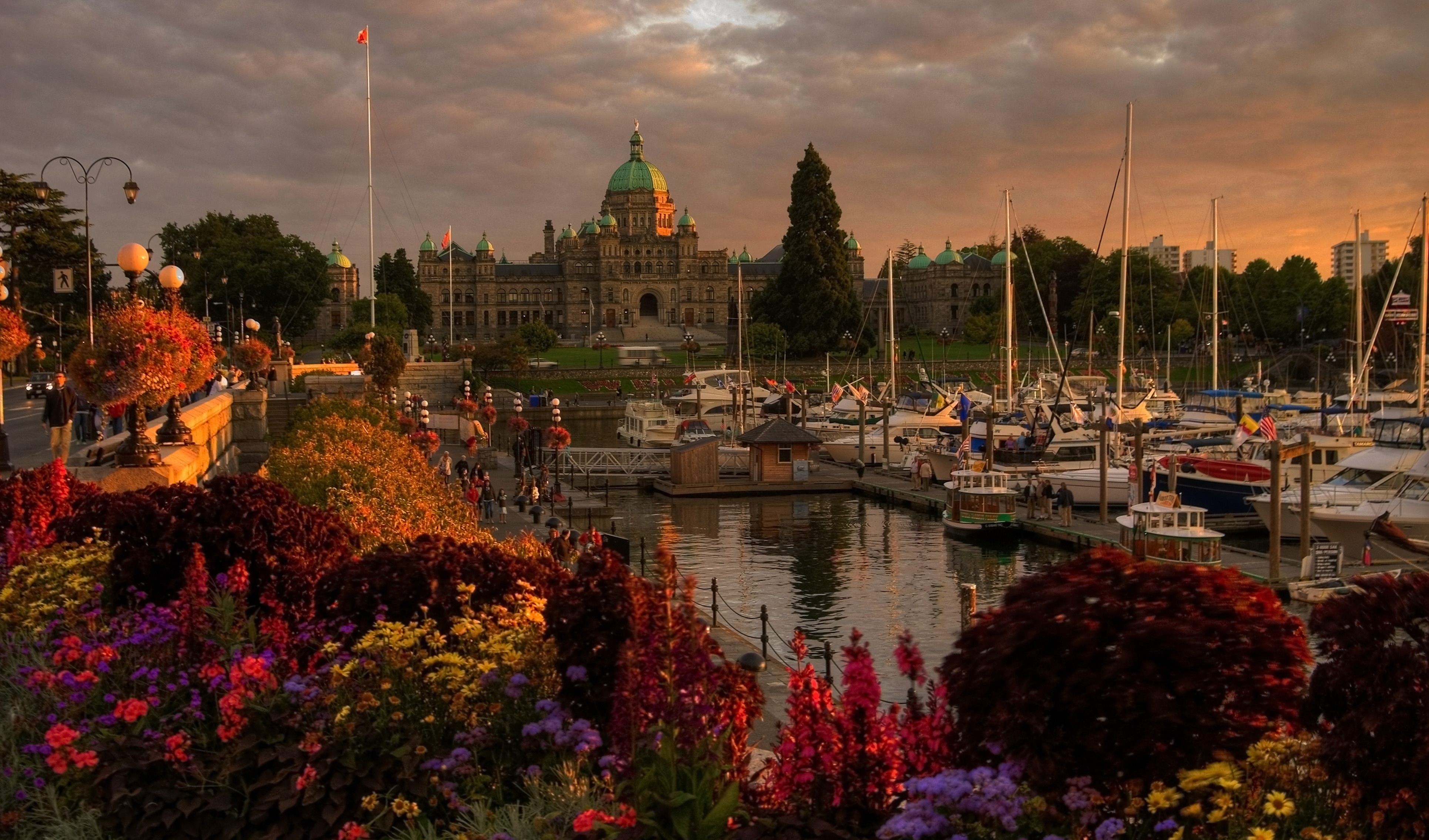 One of my favorite places to shoot is Victoria's picturesque Inner Harbour. I always find myself coming back to the same spots, but in different conditions.